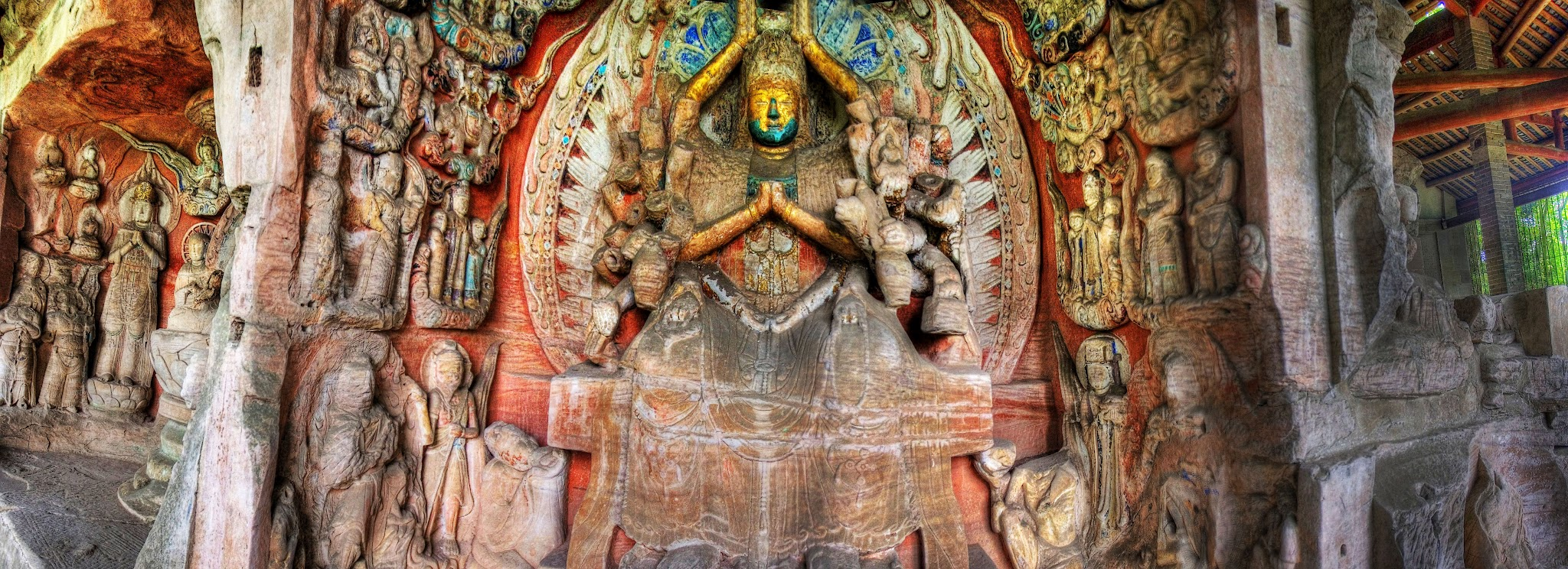 Dazu Shike Rock Carvings, 7 Beishan Rd, Dazu, Chongqing People's Republic of China by David McBride